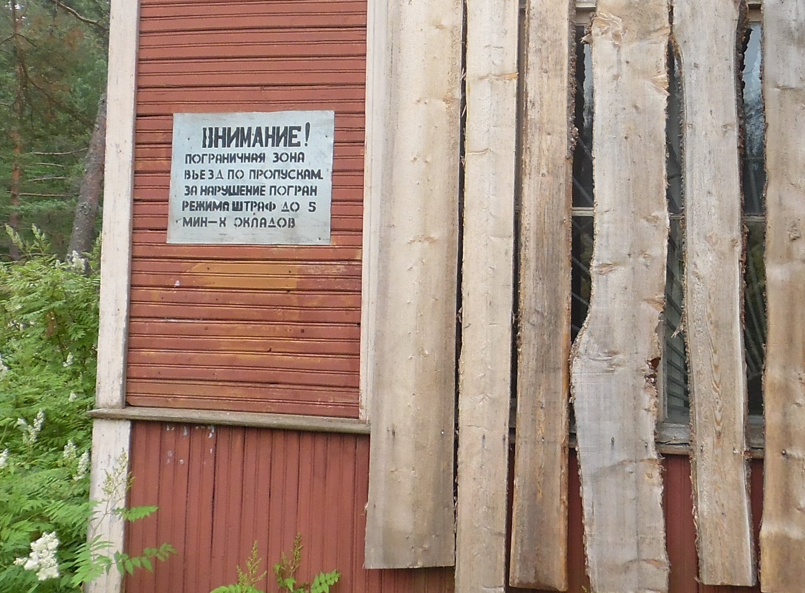 The boundary zone, Krasnoflotsk railway station, Lomonosovky district, Leningrad region